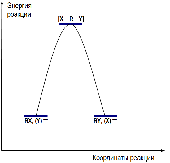 Sn2 profile